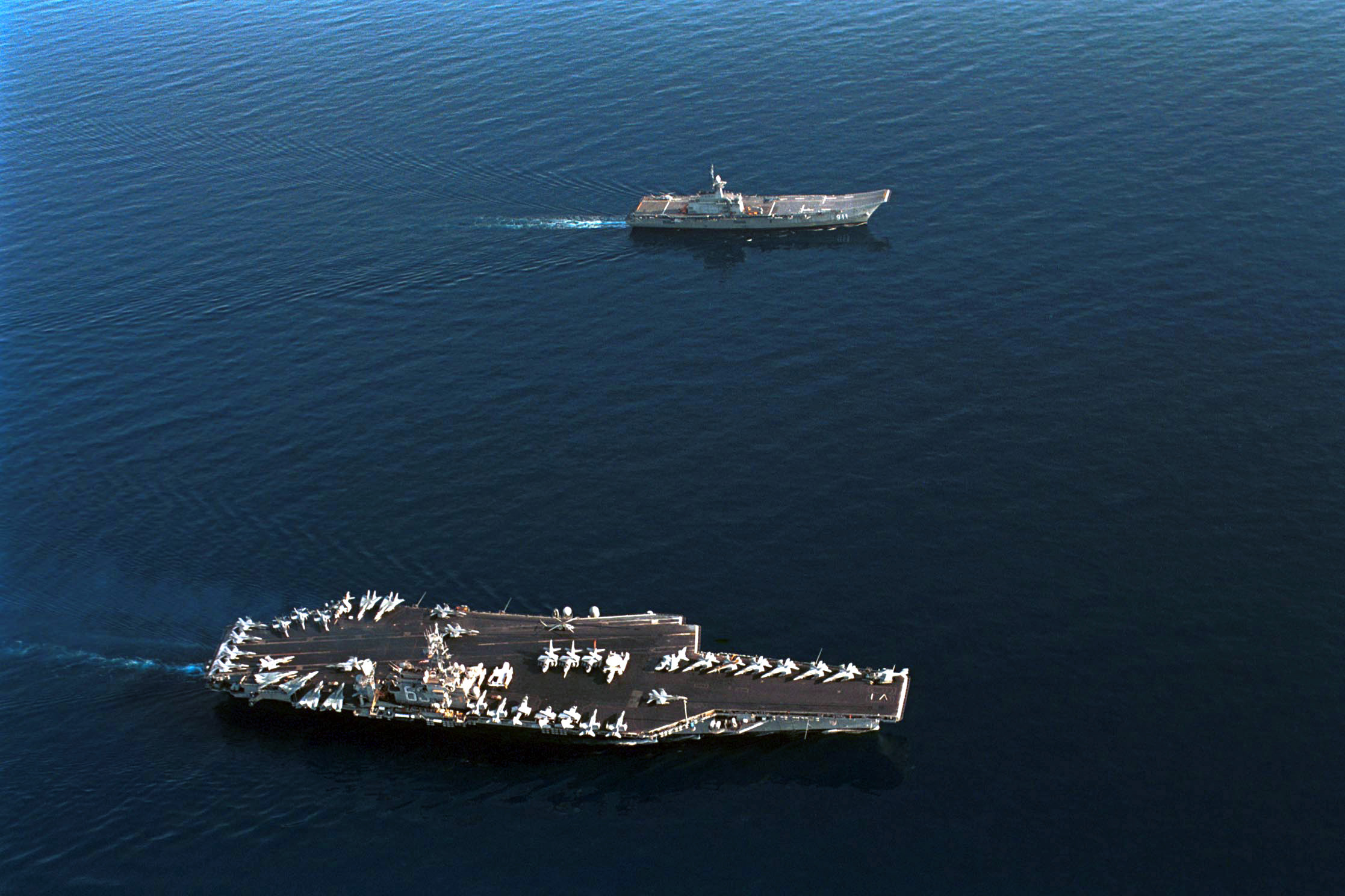 Aerial view of the Royal Thai Navy (RTN) His Thai Majesty's Ship (HTMS) CHAKRI NARUEBET (911) (left), and the aircraft carrier USS KITTY HAWK (CV 63), underway in the South China Sea